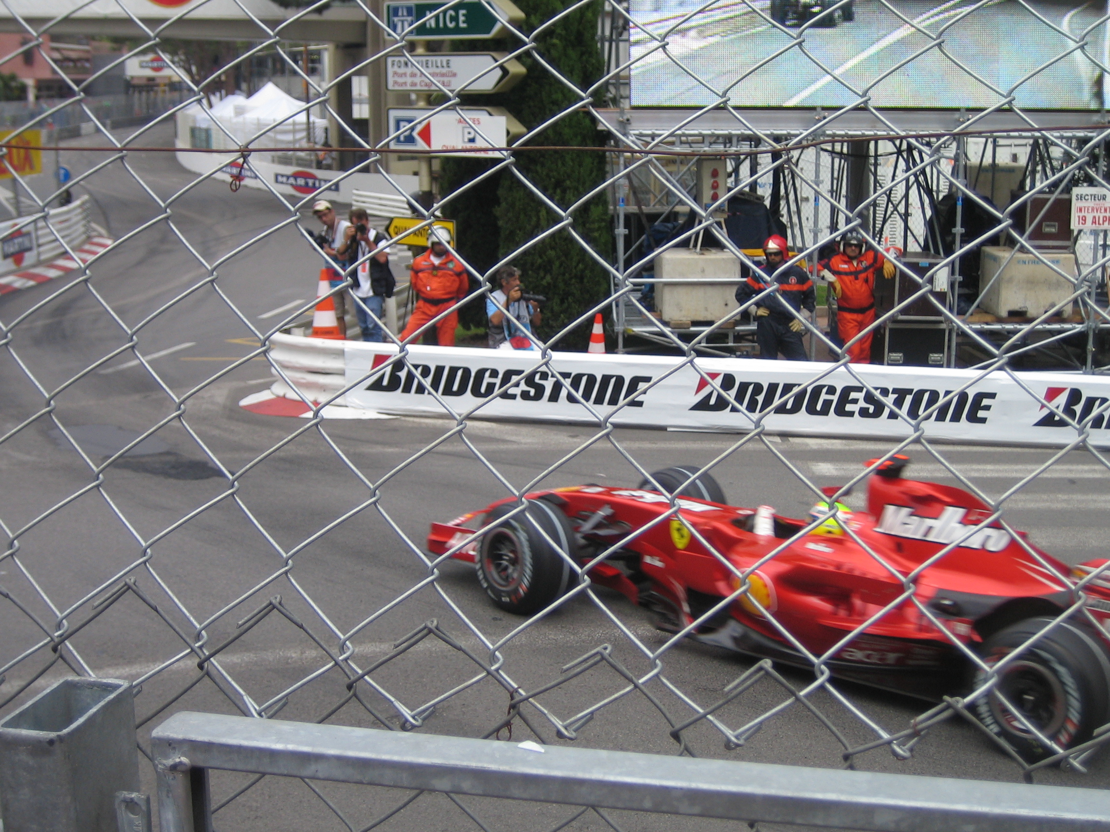 Felipe Massa, Qualifying on Saturday, May 26, 2007.